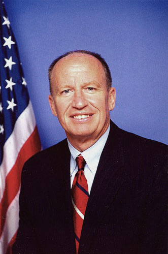 Kevin Brady, member of the United States House of Representatives